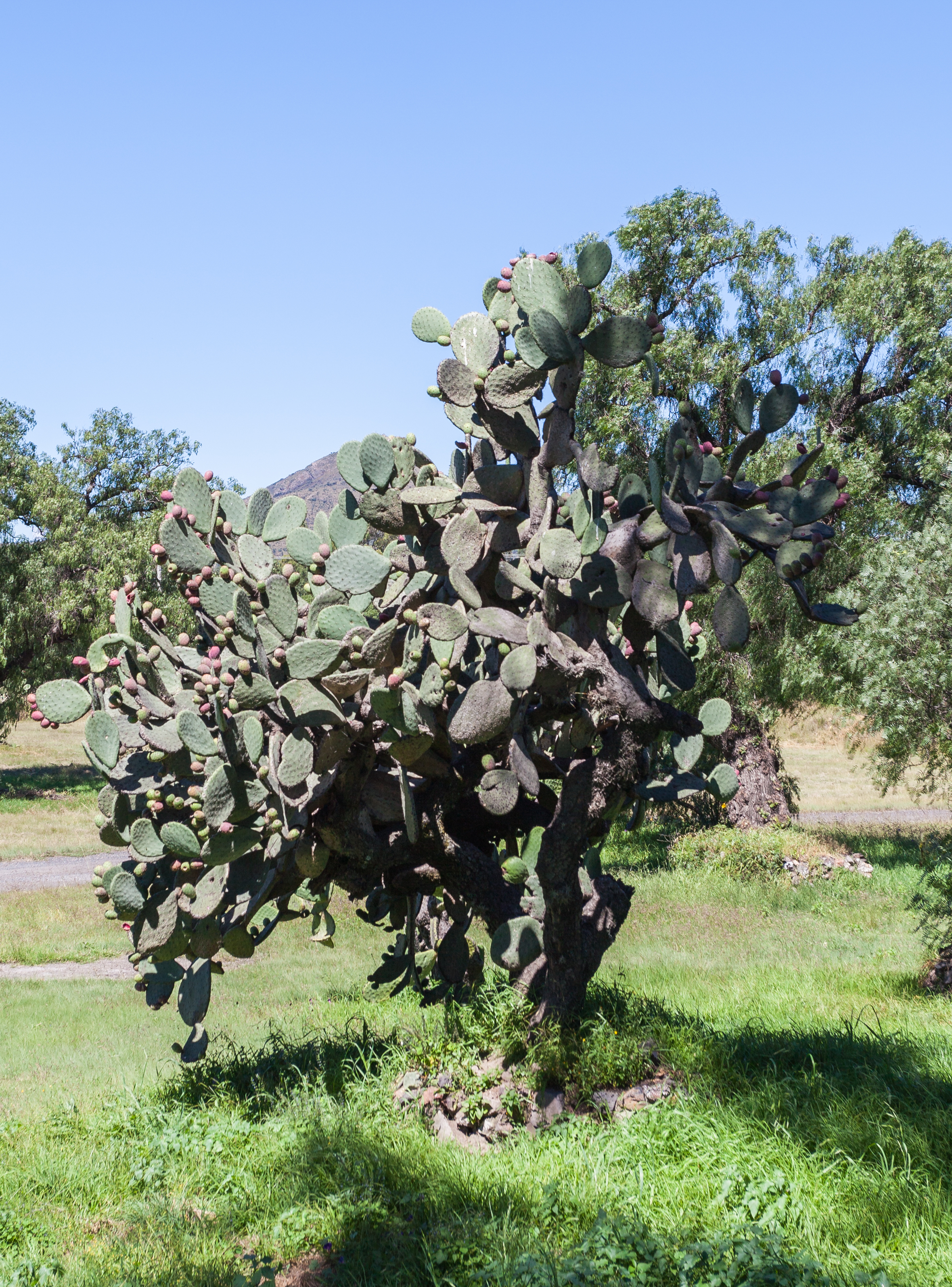 Cactus, Teotihuacán, Mexico